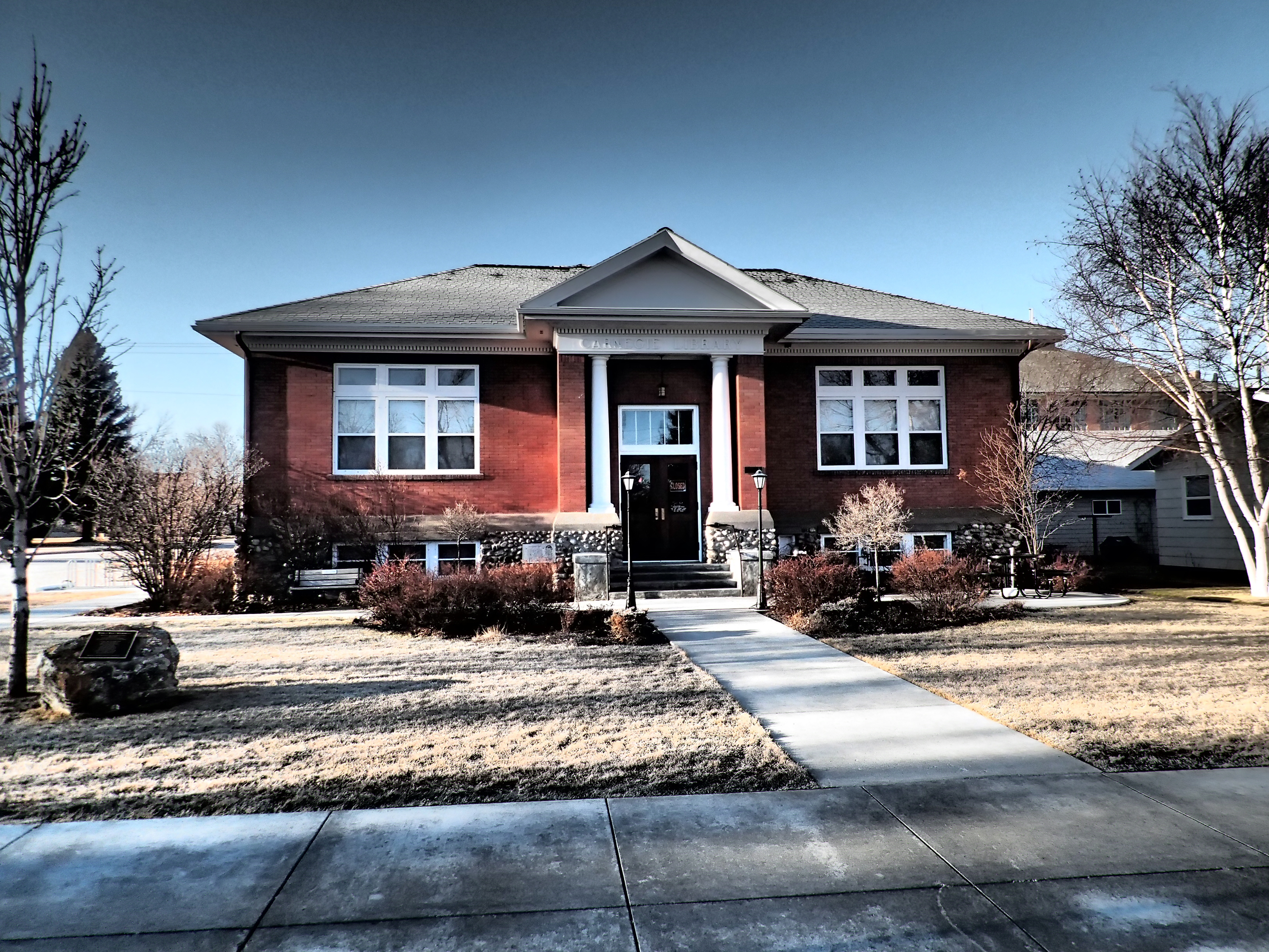 Carneige Library Big Timber Montana